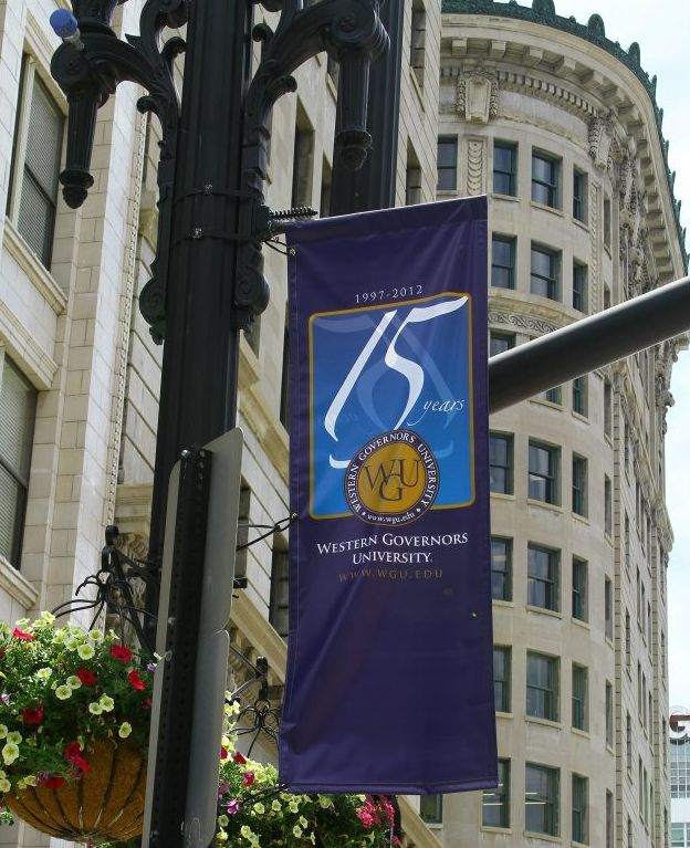 Flag in Salt Lake City Utah Celebrating 15 years of Western Governors University.